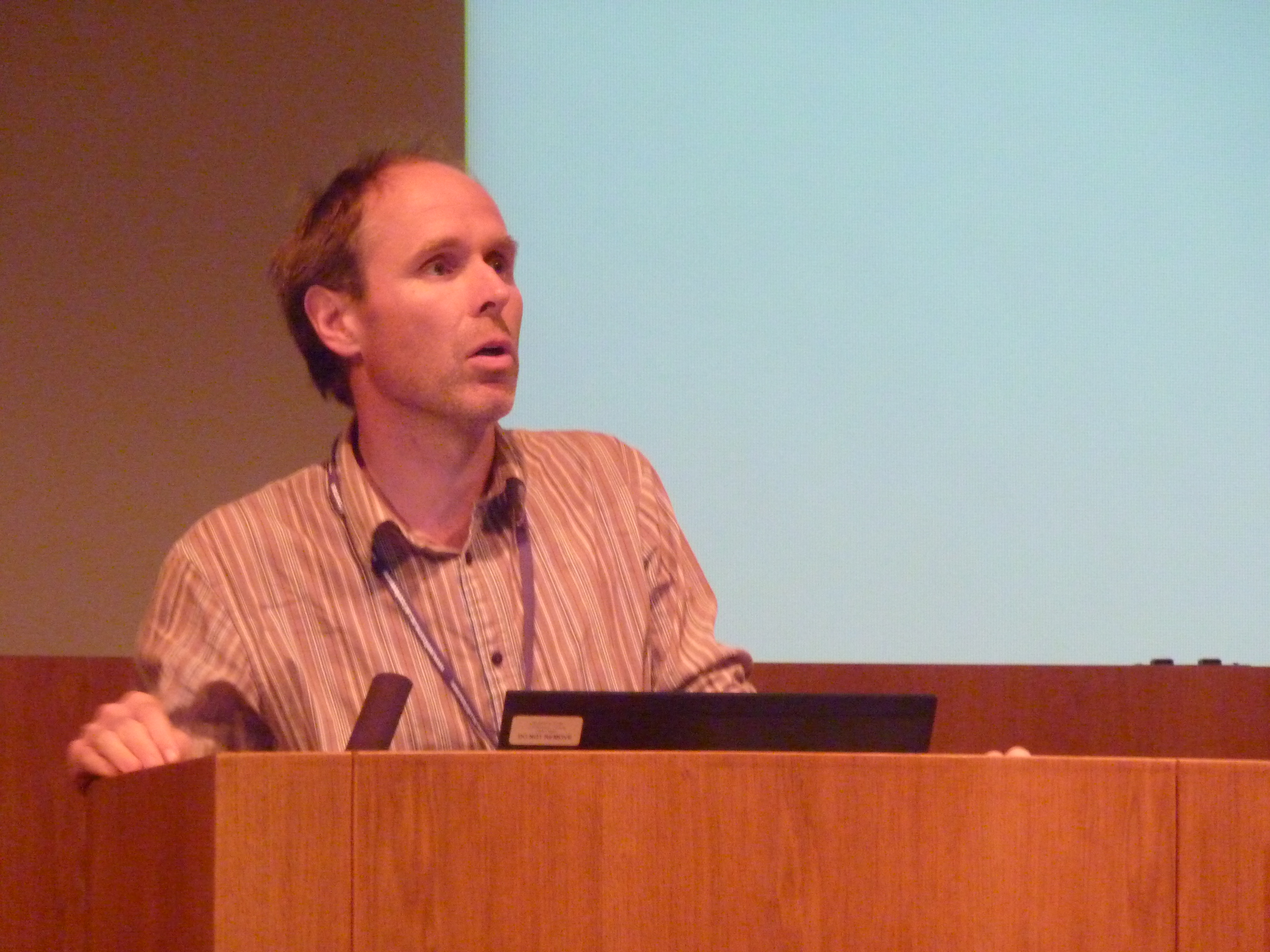 Gilean McVean talking on the 2010 GEM meeting in Hinxton, Cambridge, UK